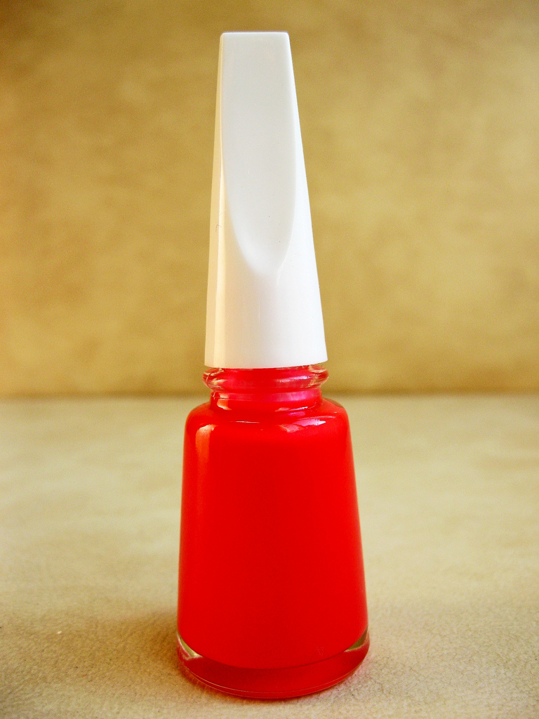 Red polish